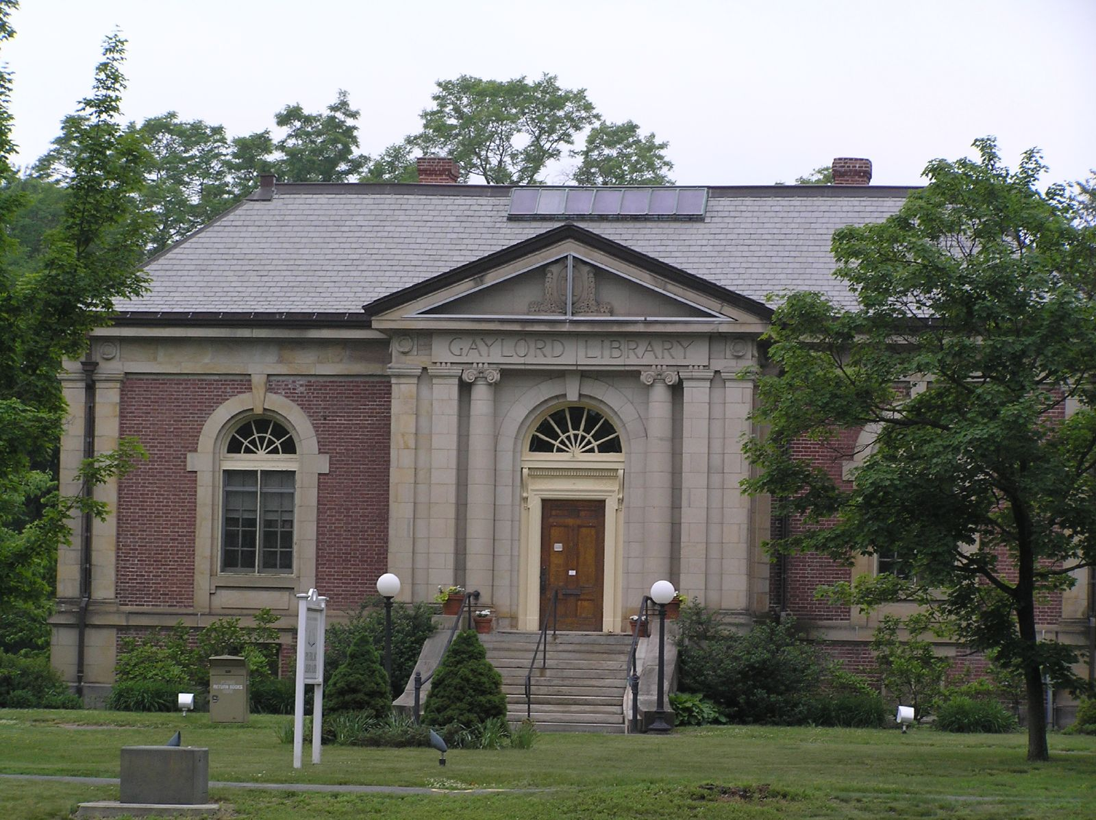 Gaylord Memorial Library in South Hadley, Massachusetts, built in 1904 from the contributions of William H. Gaylord. The library was originally operated on the Gaylord Endowment until becoming a town library in 1968, and though it has briefly operated independently since, in 2016 it was merged with the new South Hadley Main Library as a branch.